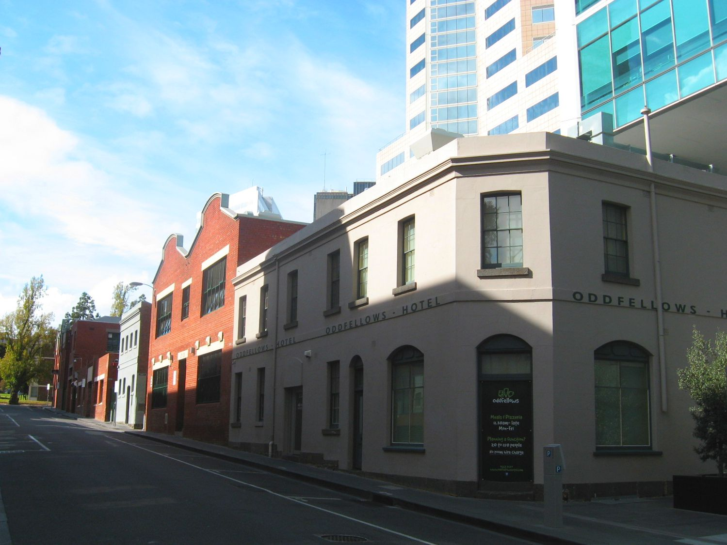 Little Lonsdale Street, Melbourne. Showing The Oddfellows Hotel and former factories. Lugton's 1870s small grey factory can be seen in the middle distance